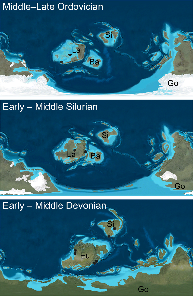 Geographic distribution of chasmataspidids. Occurrences are shown on paleogeographic reconstructions for the Middle–Late Ordovician, Early–Middle Silurian, and Early–Middle Devonian. Hoplitaspis is indicated by a star while other chasmataspidids are represented by circles. Ba = Baltica, Eu = Euramerica, Go = Gondwana, La = Laurentia, Si = Siberia. Paleogeographic reconstructions